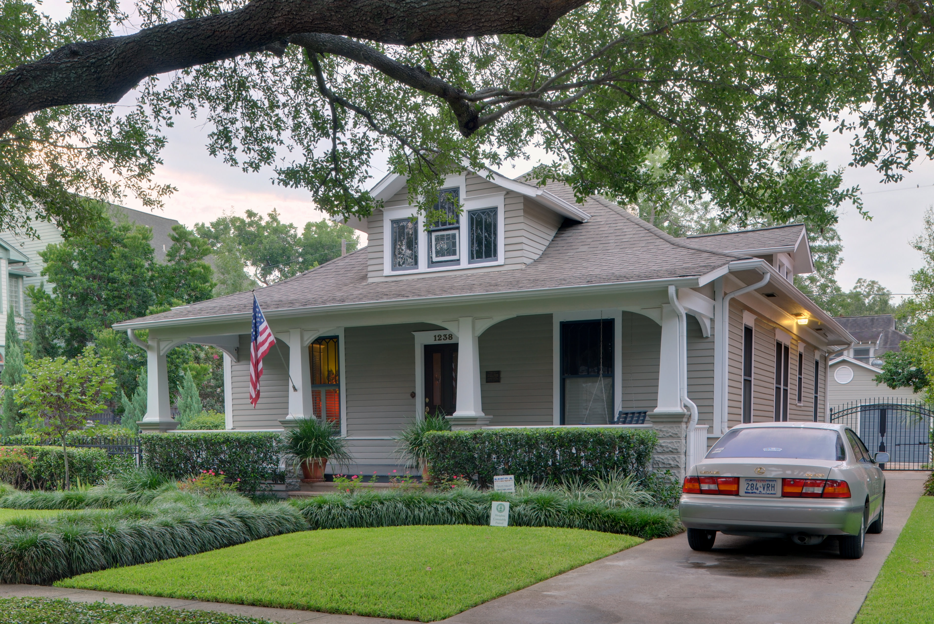 The George L. Burlingame House at 1238 Harvard St., the Heights, Houston (Texas, USA) is listed in the National Register of Historic Places, United States Department of the Interior. The house was built by its namesake in 1914 and underwent extensive restoration in several stages from 1981. Entered into the the National Register in 1988, it is currently owned by realtor Sheree Thompson.